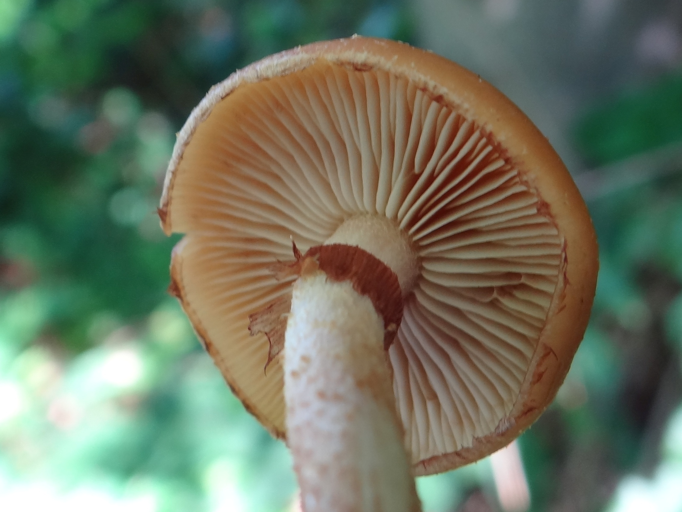 Kuehneromyces mutabilis. Location Poland, Rajbrot